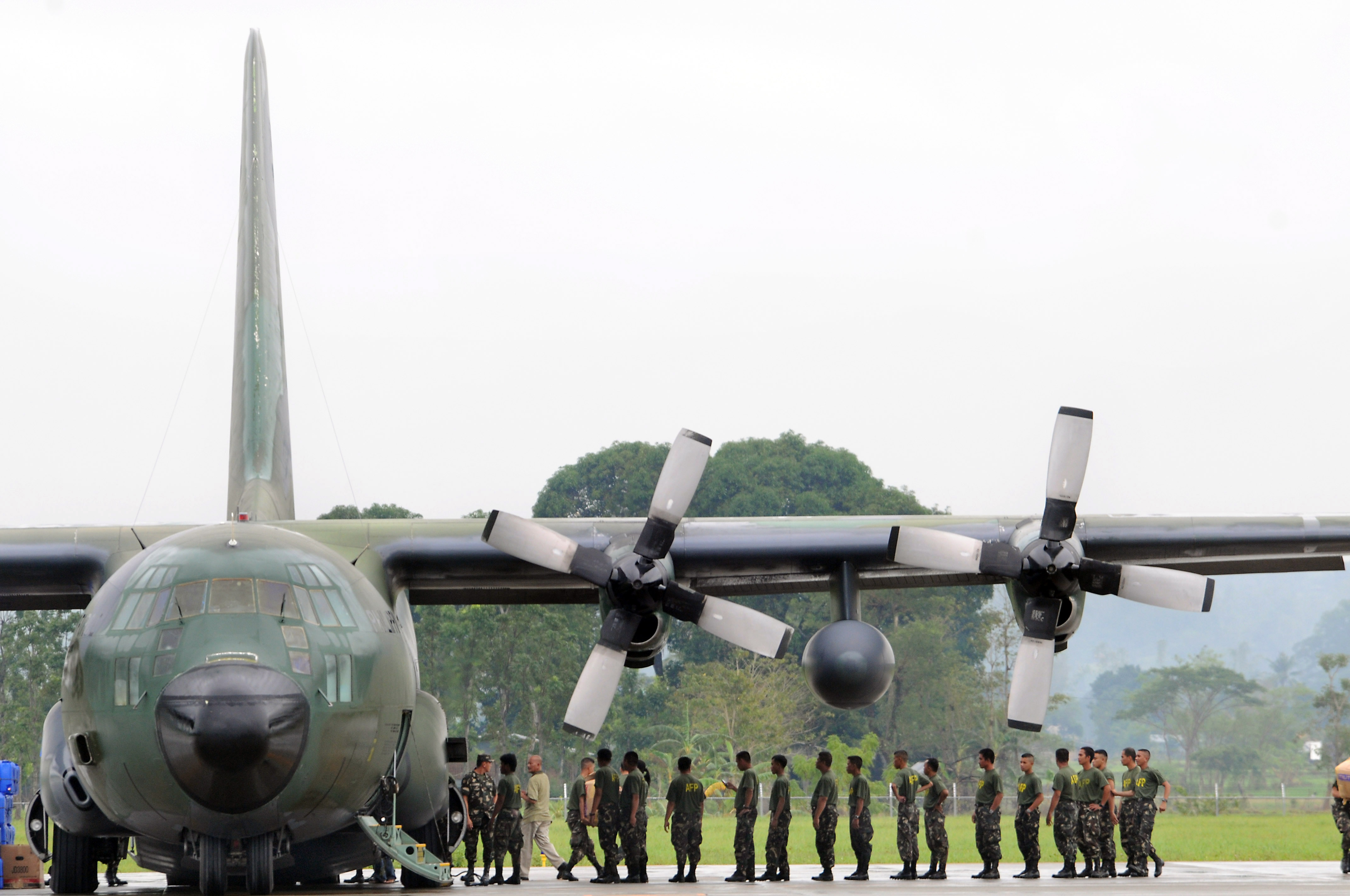 ILOILO, Philippines (June 29, 2008) Servicemen from both the Philippine Air Force and Army unload a C-130 aircraft of food and water for transfer to waiting U.S. helicopters, which will deliver to remote locations throughout Panay Island. At the request of the government of the Republic of the Philippines, USS Ronald Reagan (CVN 76) and elements of her Carrier Strike Group (CSG) are off the coast of Panay Island providing humanitarian assistance and disaster response in the wake of Typhoon Fengshen. Reagan and other U.S. Navy ships are operating in the 7th Fleet area of responsibility to promote peace, cooperation and stability. U.S. Navy photo by Senior Chief Mass Communication Specialist Spike Call (Released)